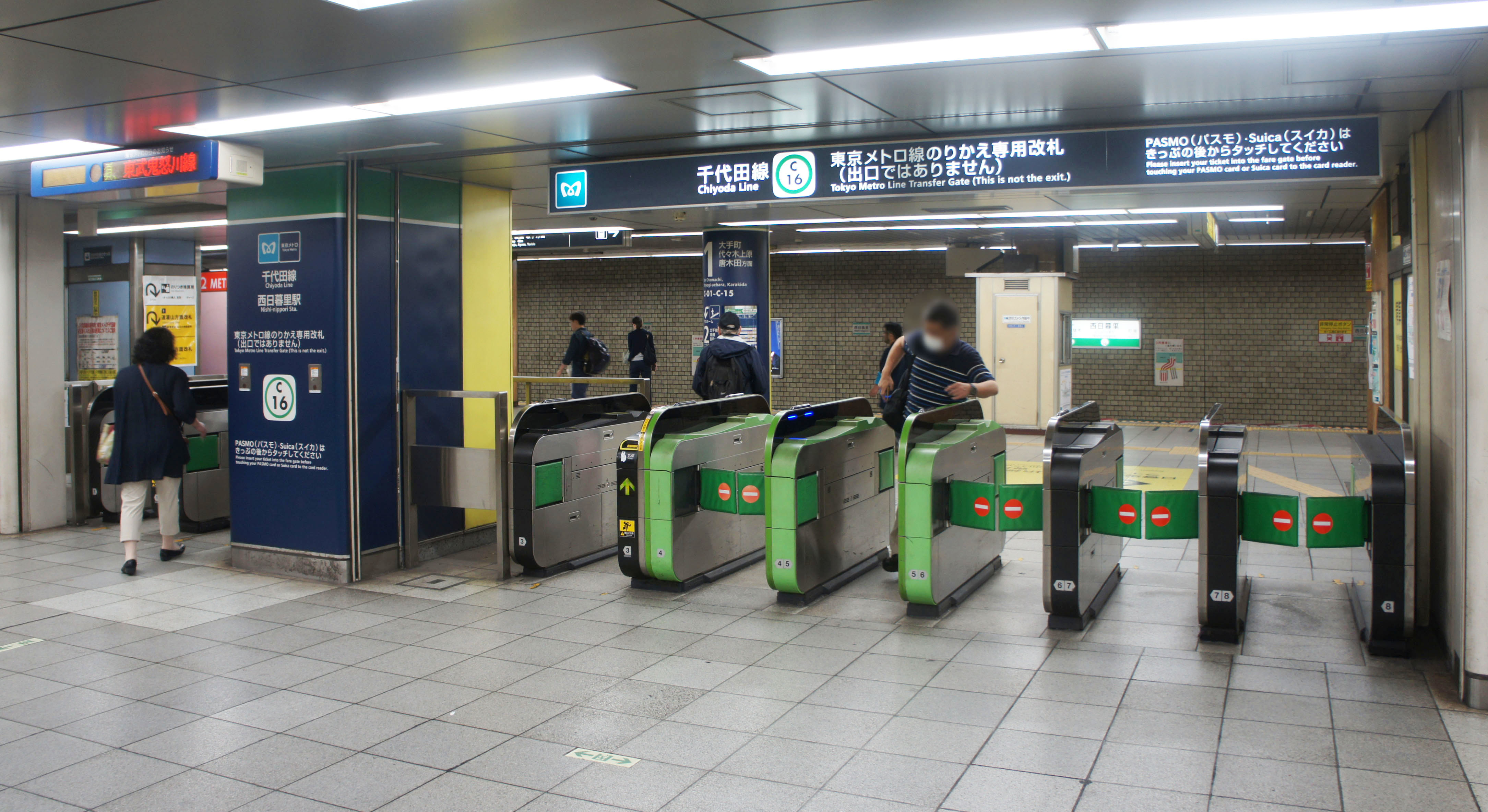 JR · Tokyo Metro Contact Gates of Nishi-Nippori Station Sony NEX-3 + E 18-55mm F3.5-5.6 OSS